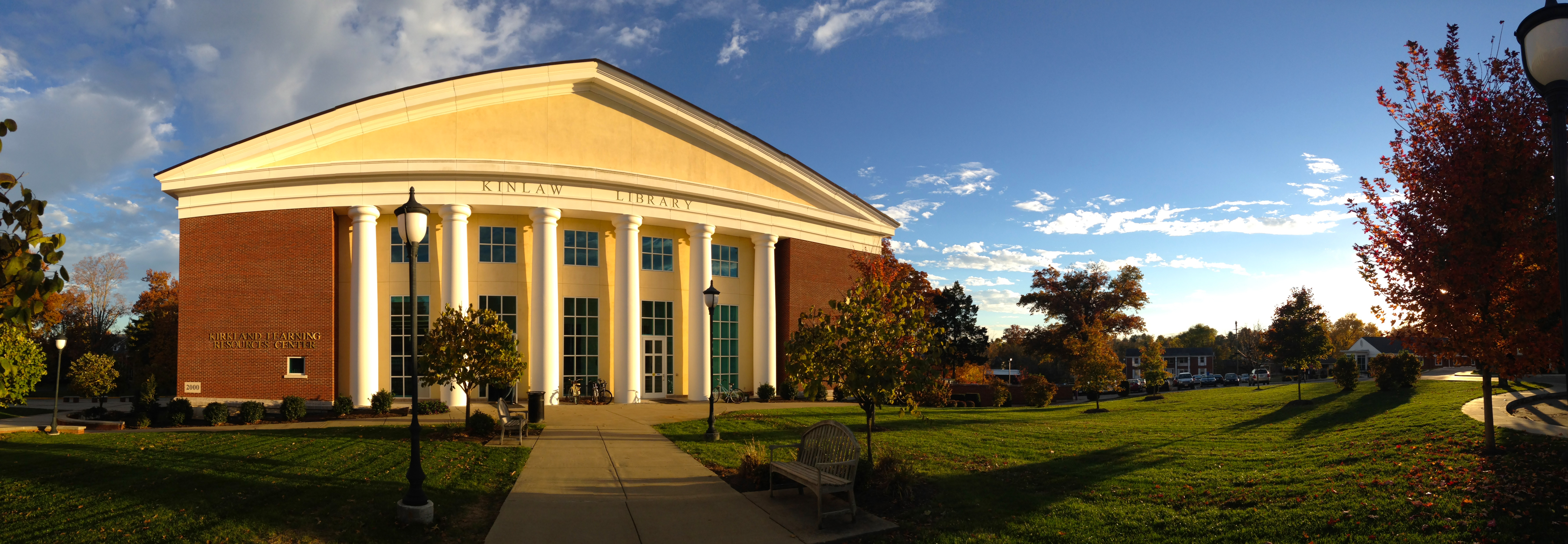 Asbury University's Library provides students with materials for learning, hosts classes for Education and Writing, and serves as a hub for studying.